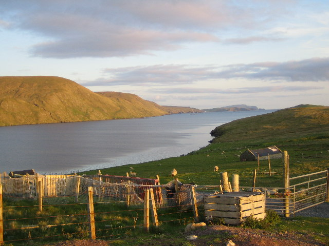 Clift Sound from East Burra, Shetland, Scotland